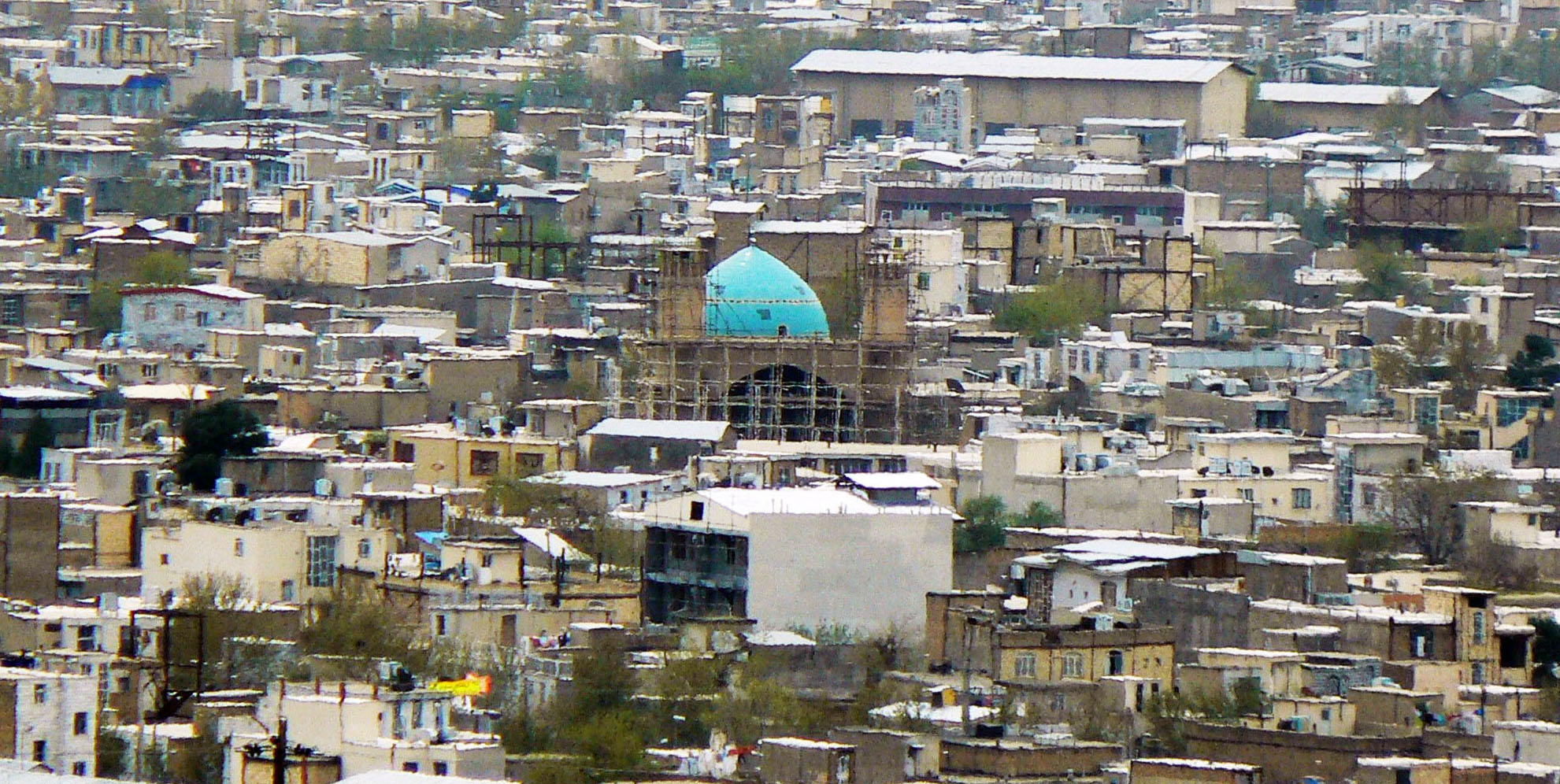 Aerial view of Borujerd from north showing the Jame Mosque in an old district of Borujerd.